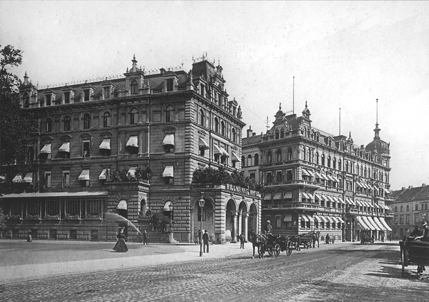 The street Herdentorsteinweg in Bremen, Germany, with the luxury hotels Hillmann (on the left) by Heinrich Müller and Europa (on the right) around 1900.